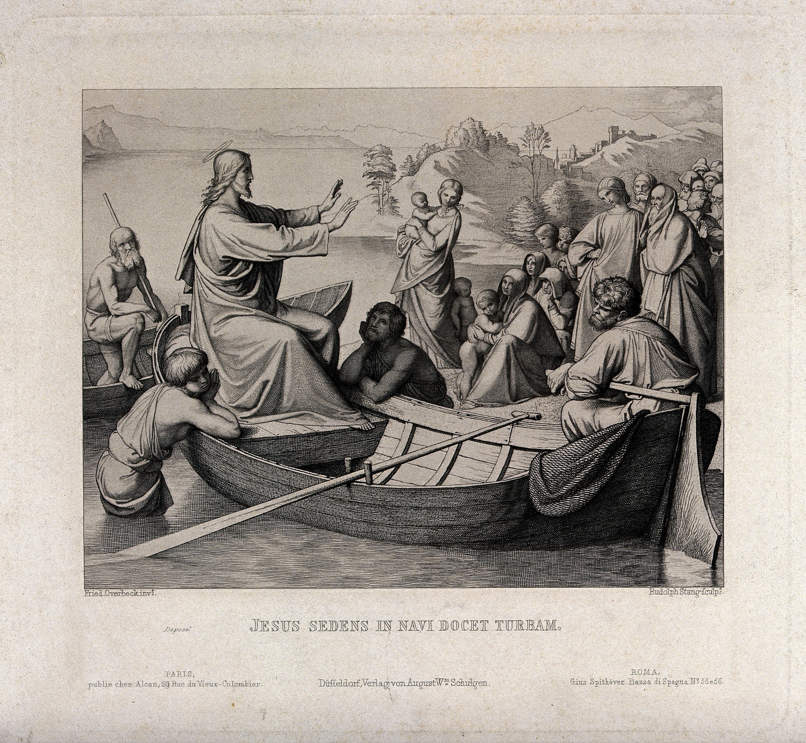 Christ, seated in a boat, pacifies the crowds on the shore. Etching by R. Stang after J.F. Overbeck. Iconographic Collections Keywords: Jesus Christ; Johann Friedrich Overbeck; Rudolph Stang